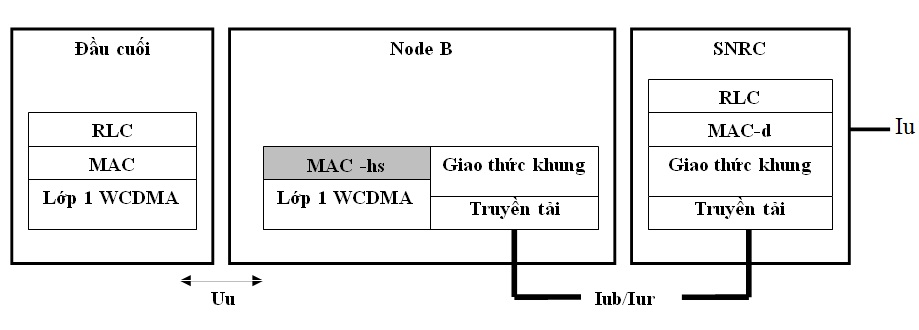 Kiến trúc giao thức người dùng HSDPA